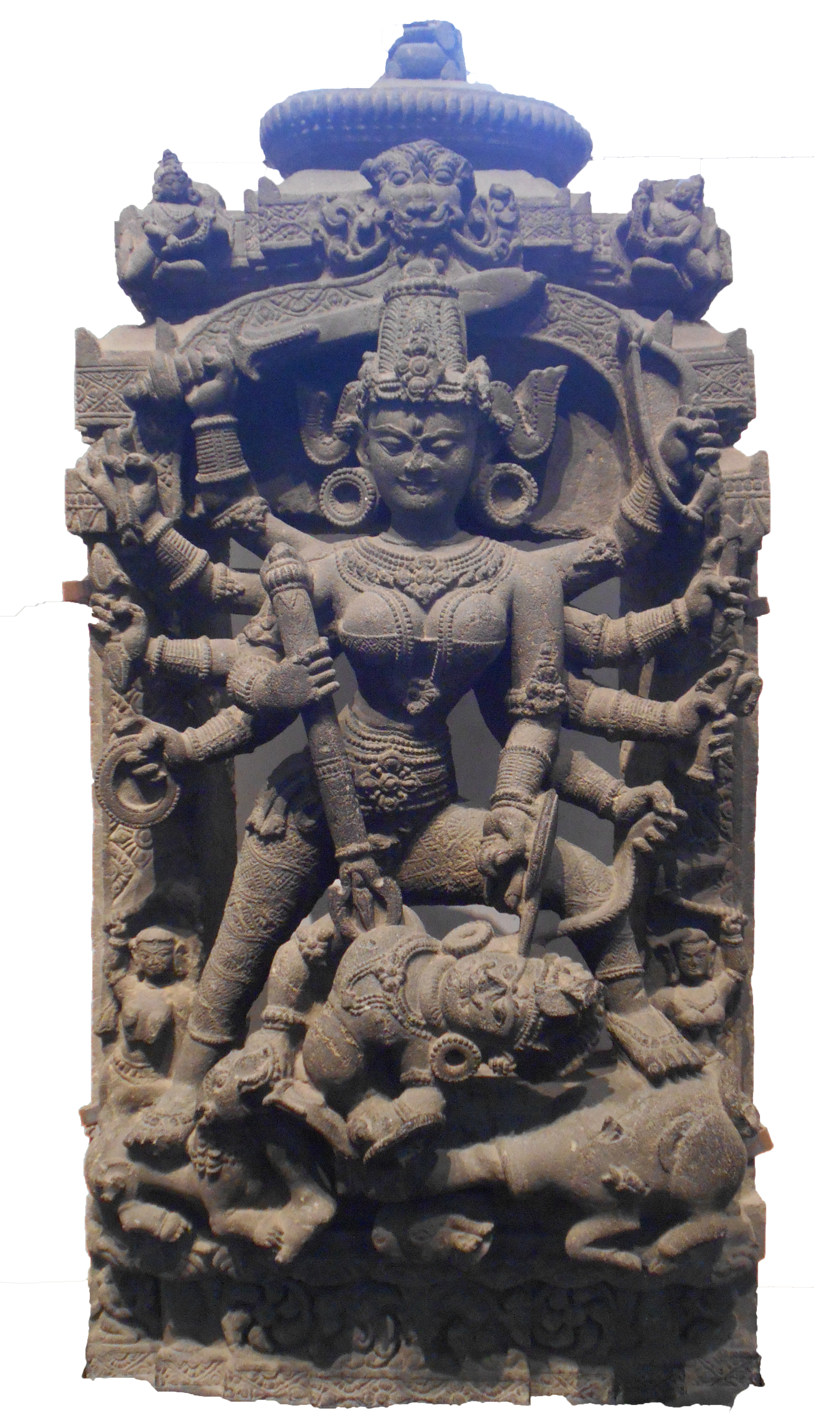 Stone sculpture of Devi Durga found in Bengal. Durga Mahishasura-mardini, the slayer of the buffalo demon